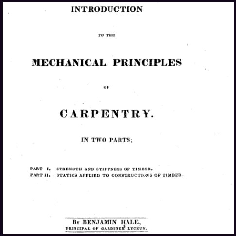 Introduction to the Mechanical Principles of Carpentry